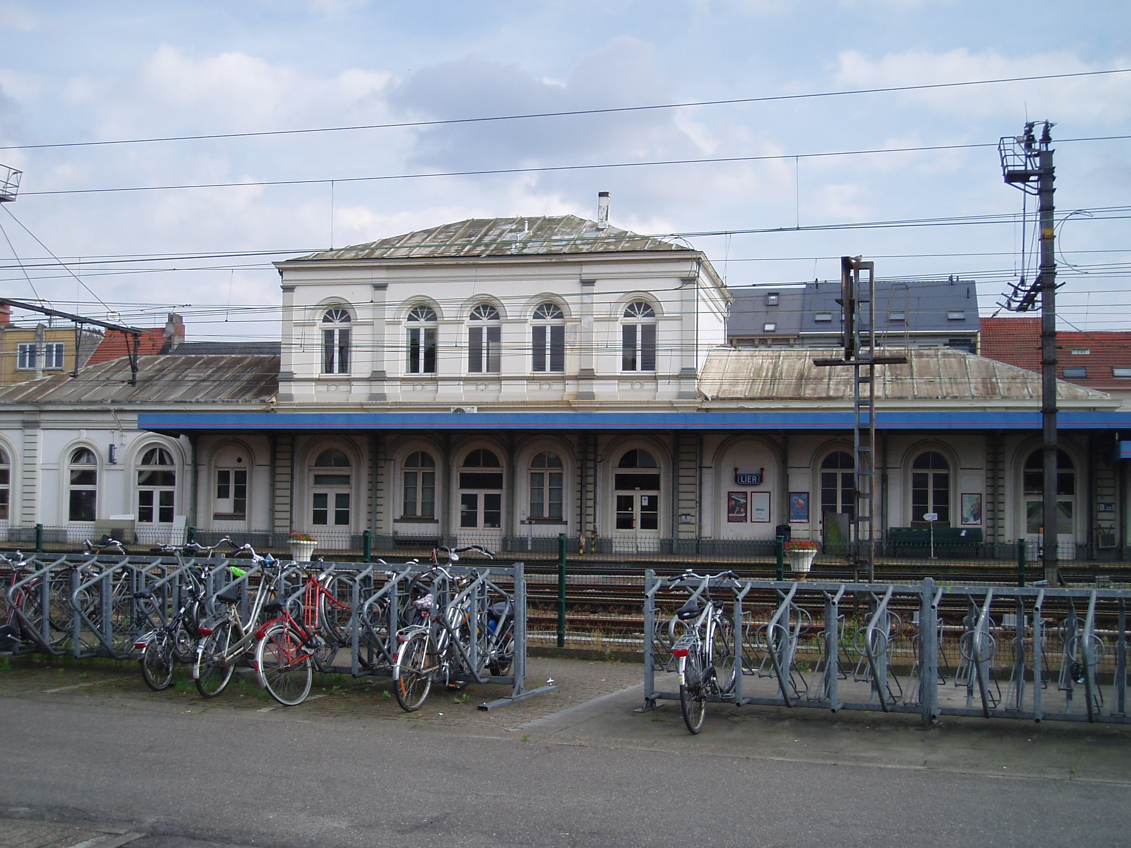 Lier station back side